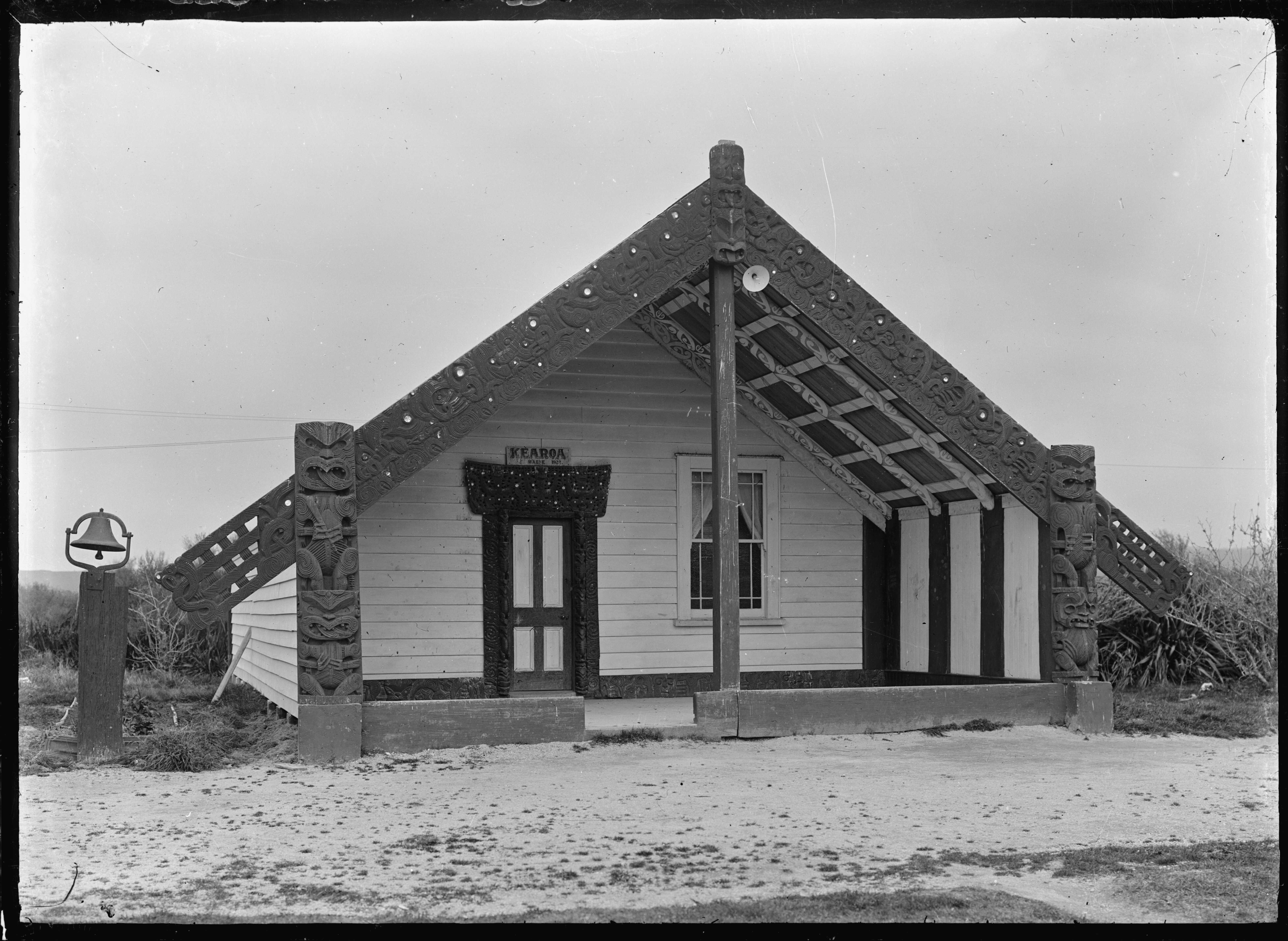 Kearoa Meeting House, Tawera, Rotorua. Inscription above the door reads "Kearoa. Maehe. 1922" [i.e. March 1922]. Photographed by Albert Percy Godber, in 1931.